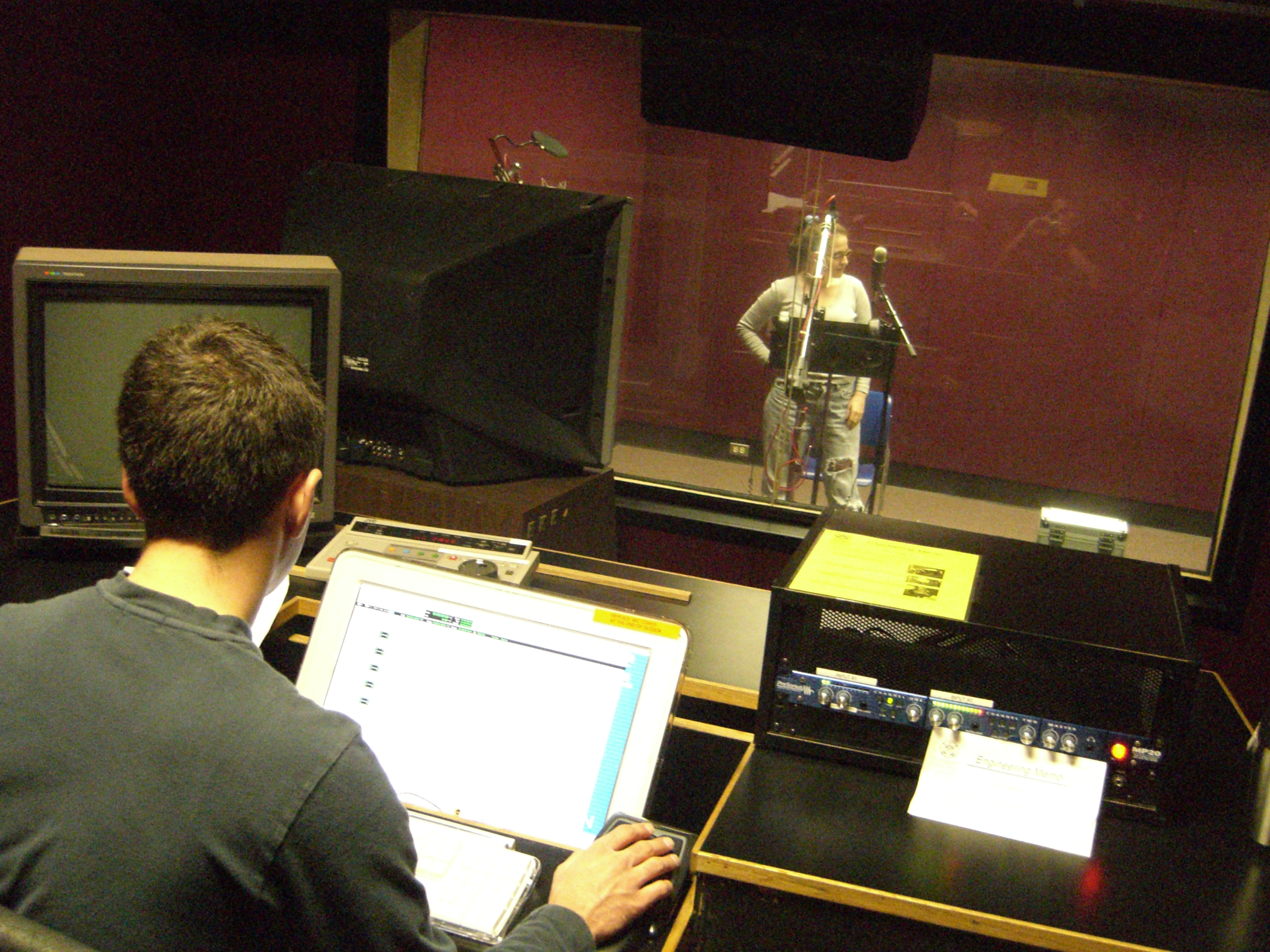 from the recording booth